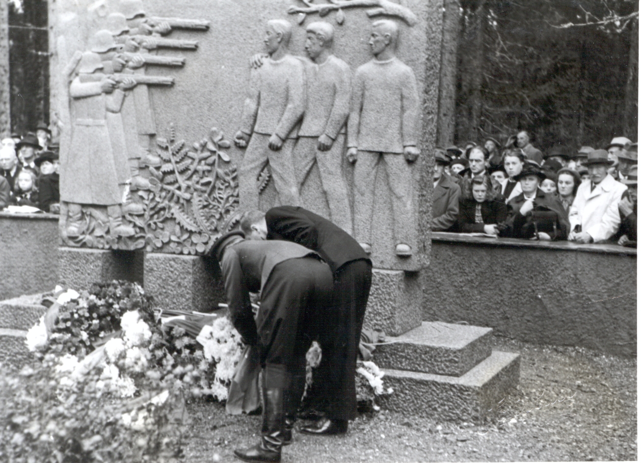 Fra avdukingen av monumentet i Falstadskogen, 12. oktober 1947. The unveiling of the monument in the Falstad Forest, 12 October 1947. Fotograf / Photographer: Schrøder (?) Arkivreferanse / Archive reference: 0700001